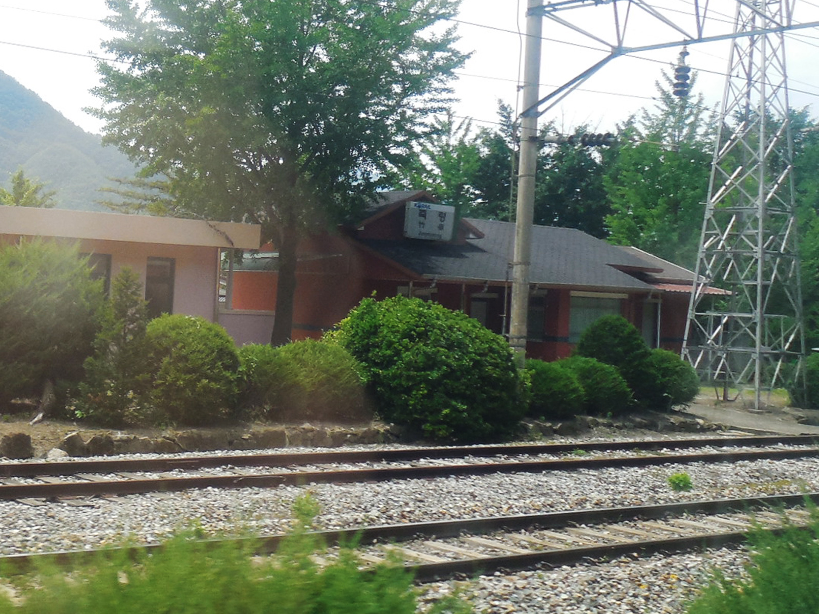 Korail Jungang Line Jungnyeong Station.